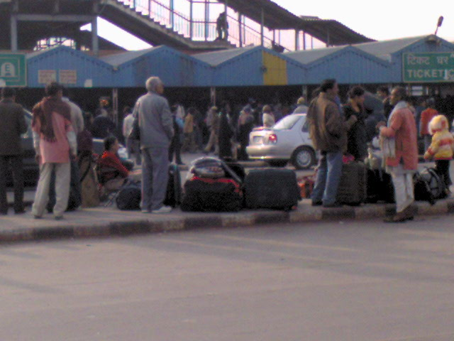 Busy NDLS station, it is always crowded